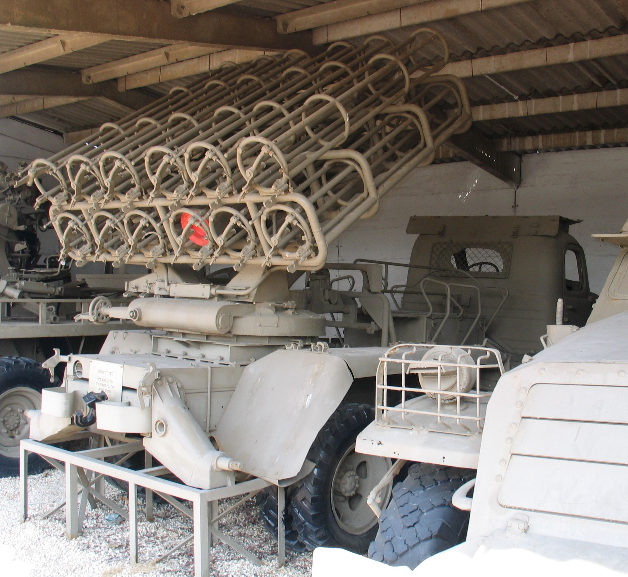 Soviet BM-24 rocket system in Batey ha-Osef Museum, Tel Aviv, Israel.